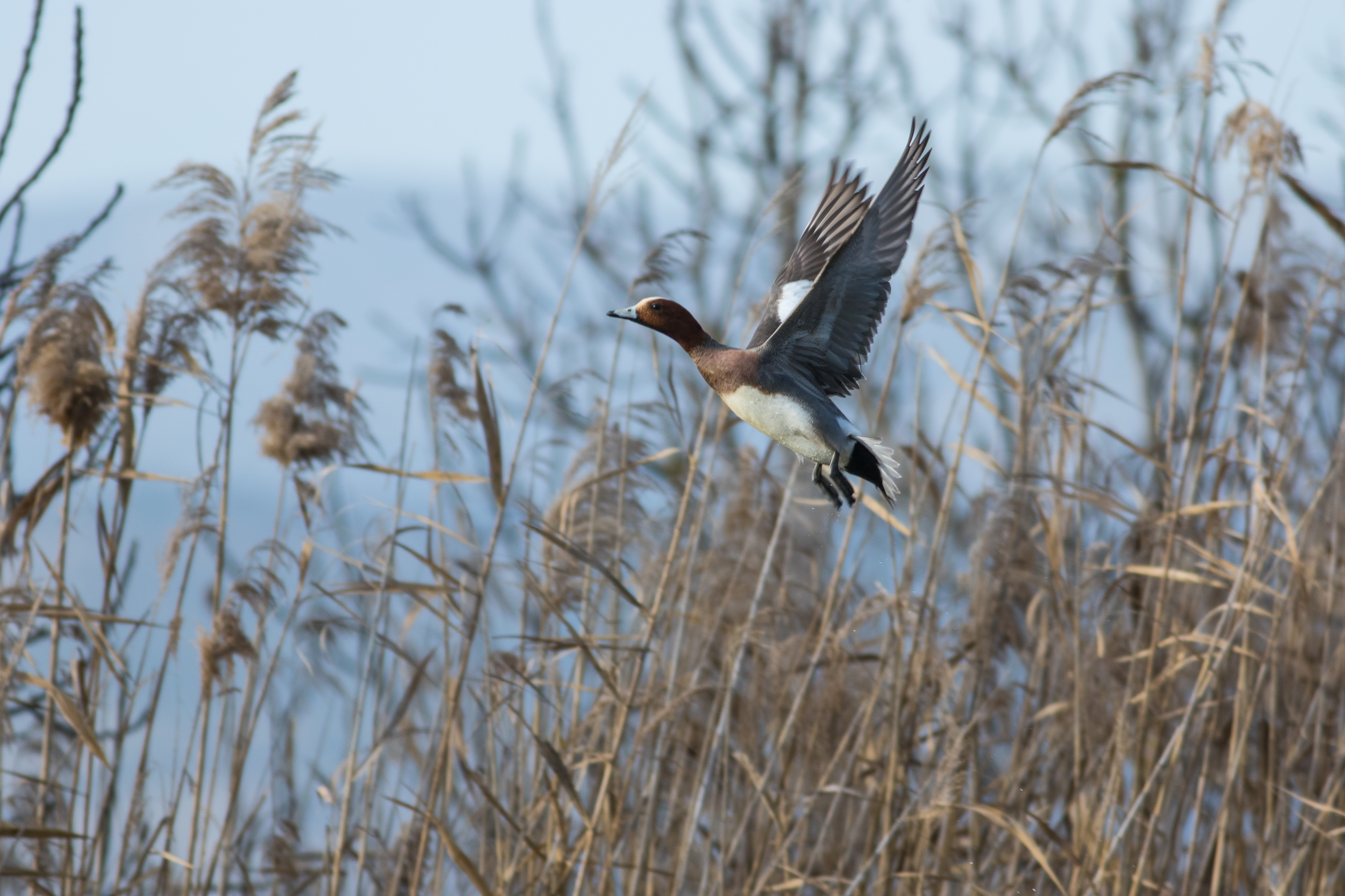 Anas penelope in flight. Hula Valley, Israel.